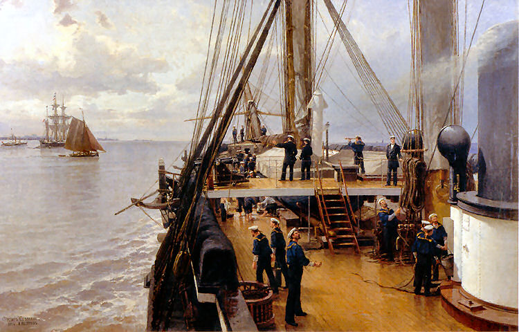 On Deck Of The Frigate "Svetlana"